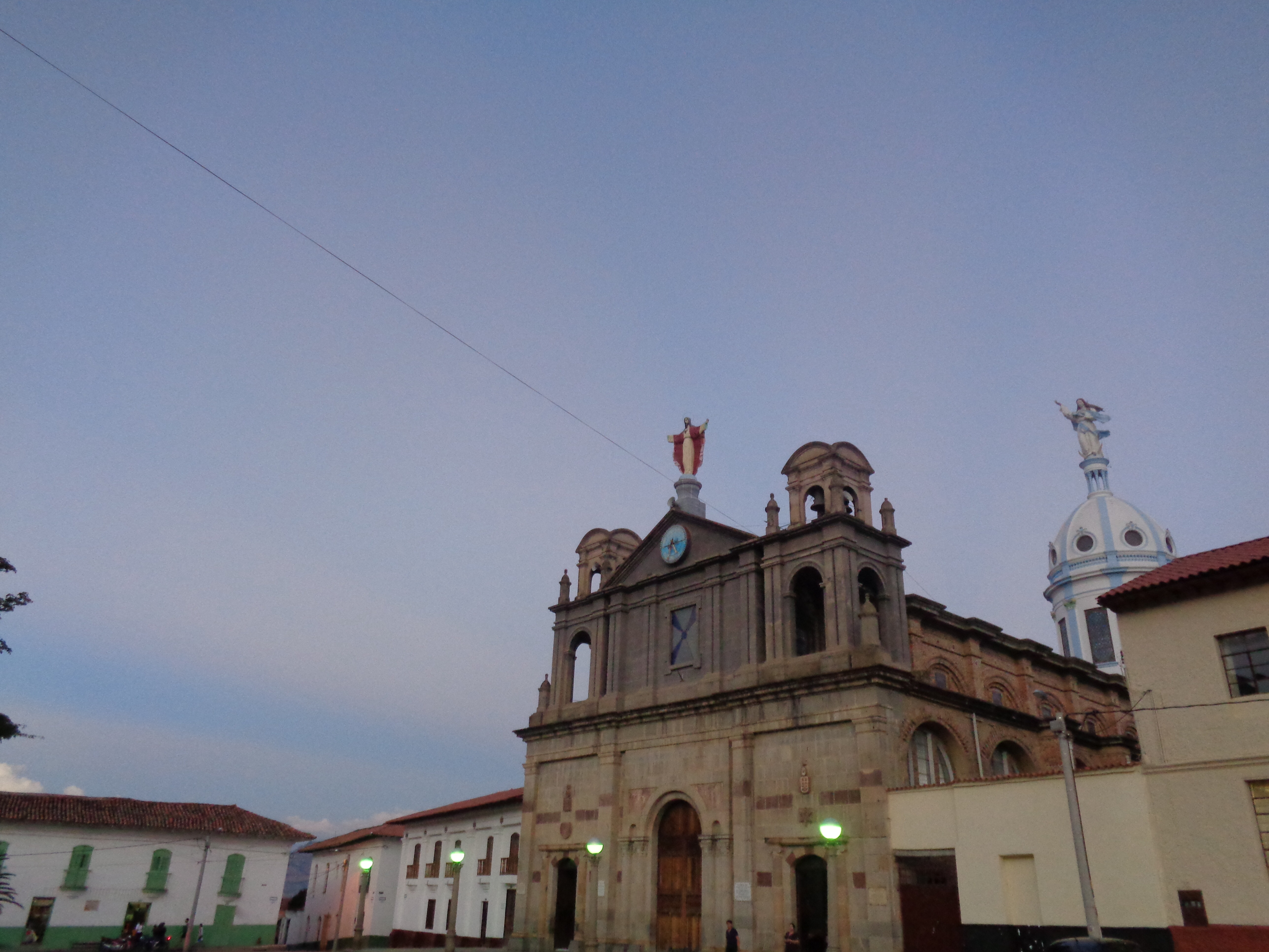 Catedral La Inmaculada Concepción de Soatá